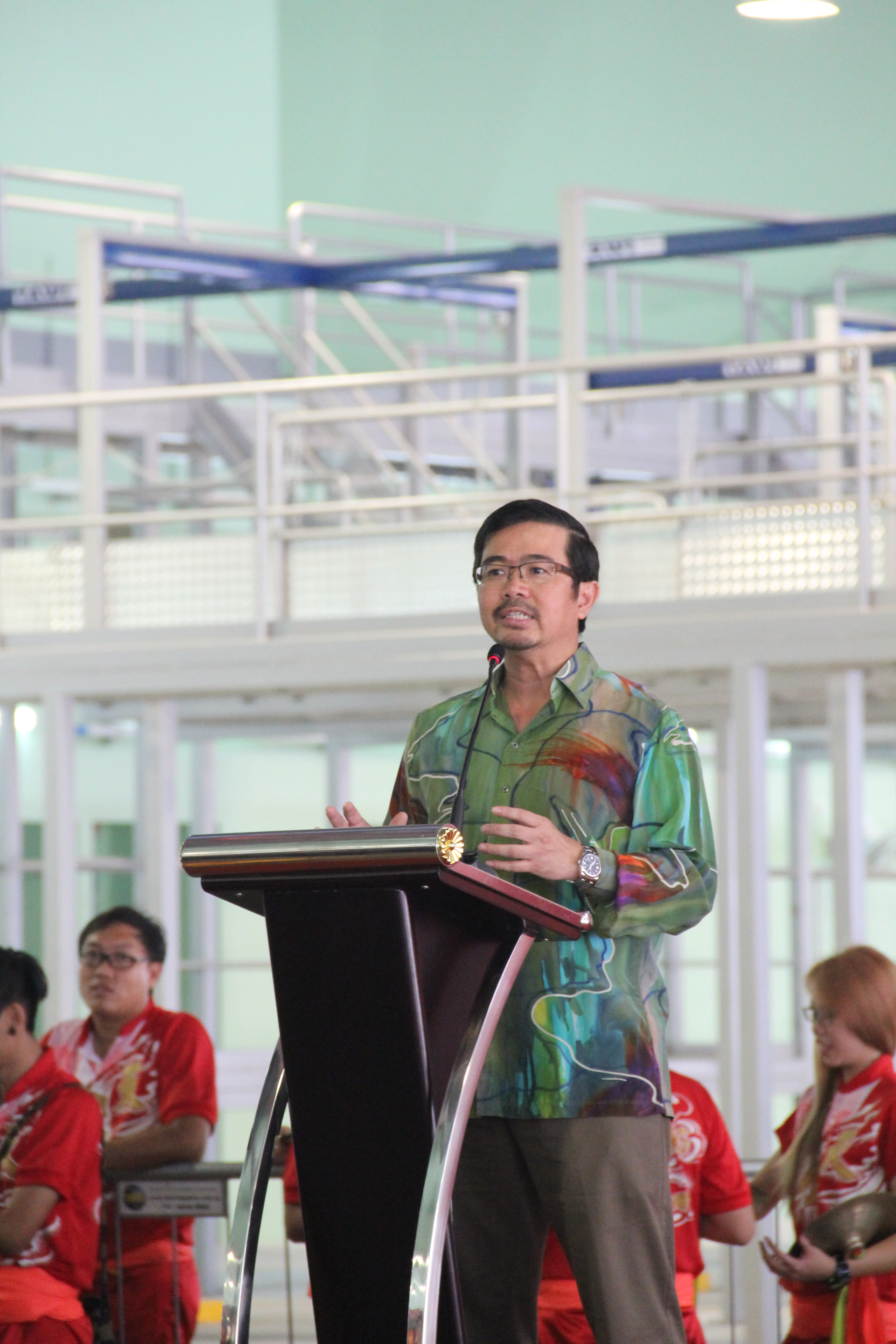 Mr Zainal Sapari, Member of Parliament for Pasir Ris-Punggol GRC, giving his opening ceremony address